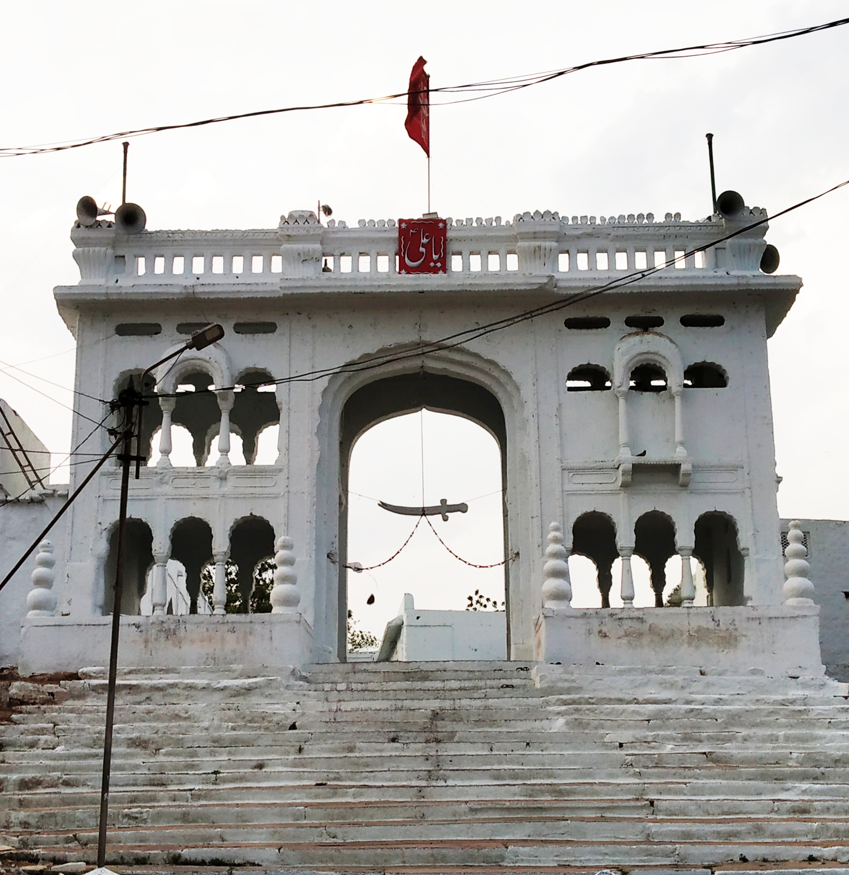 main arch